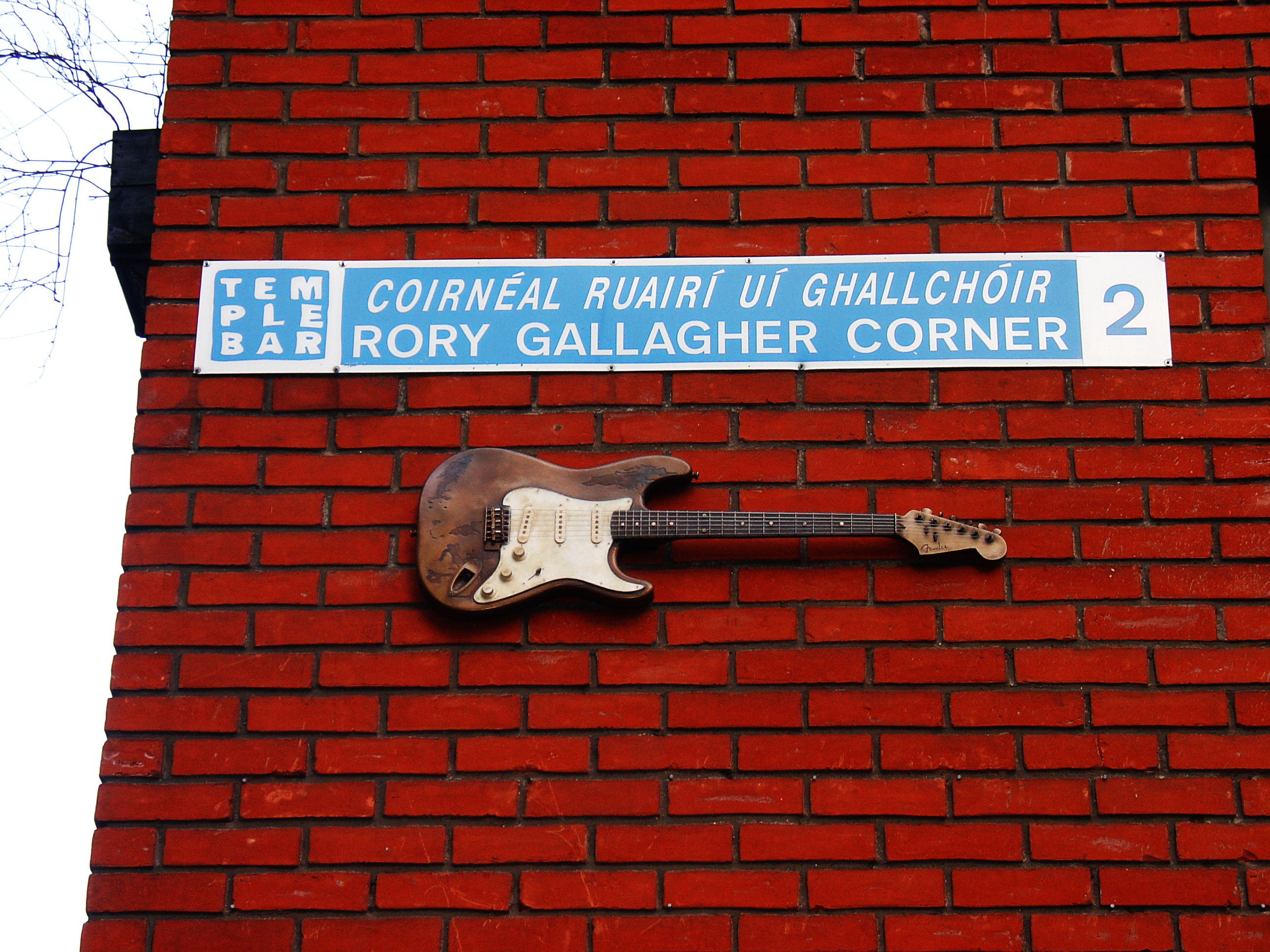 A life-size bronze statue in the shape of Rory Gallagher's Stratocaster at Rory Gallagher Corner in Dublin's Temple Bar.